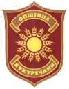 Coat of arms of former Kukurečani Municipality, Macedonia.